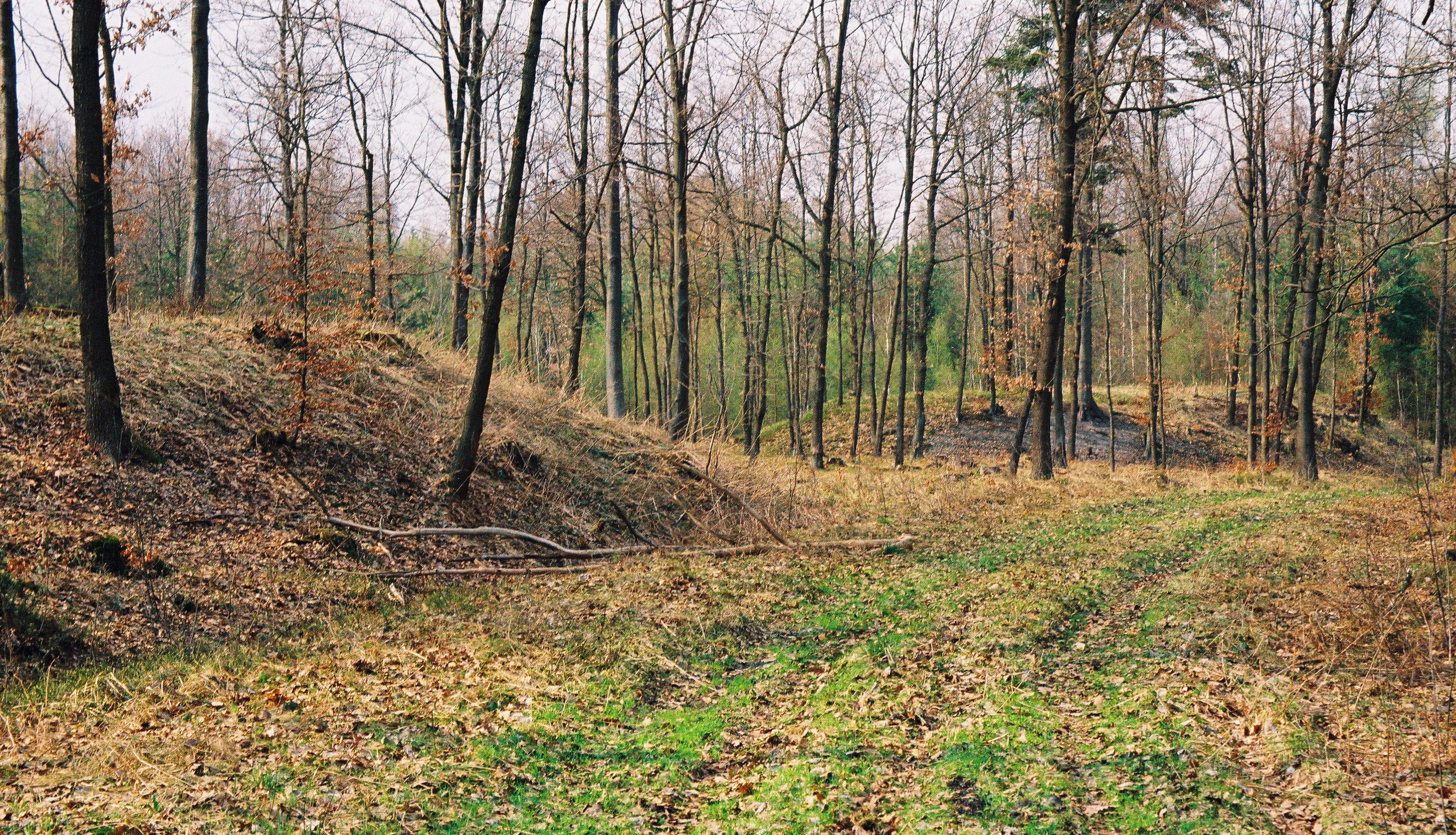 Zumpy - village in Gmina Boronów, Poland, mouns Author: Przykuta 21:28, 26 April 2006 (UTC) Date: April 2006